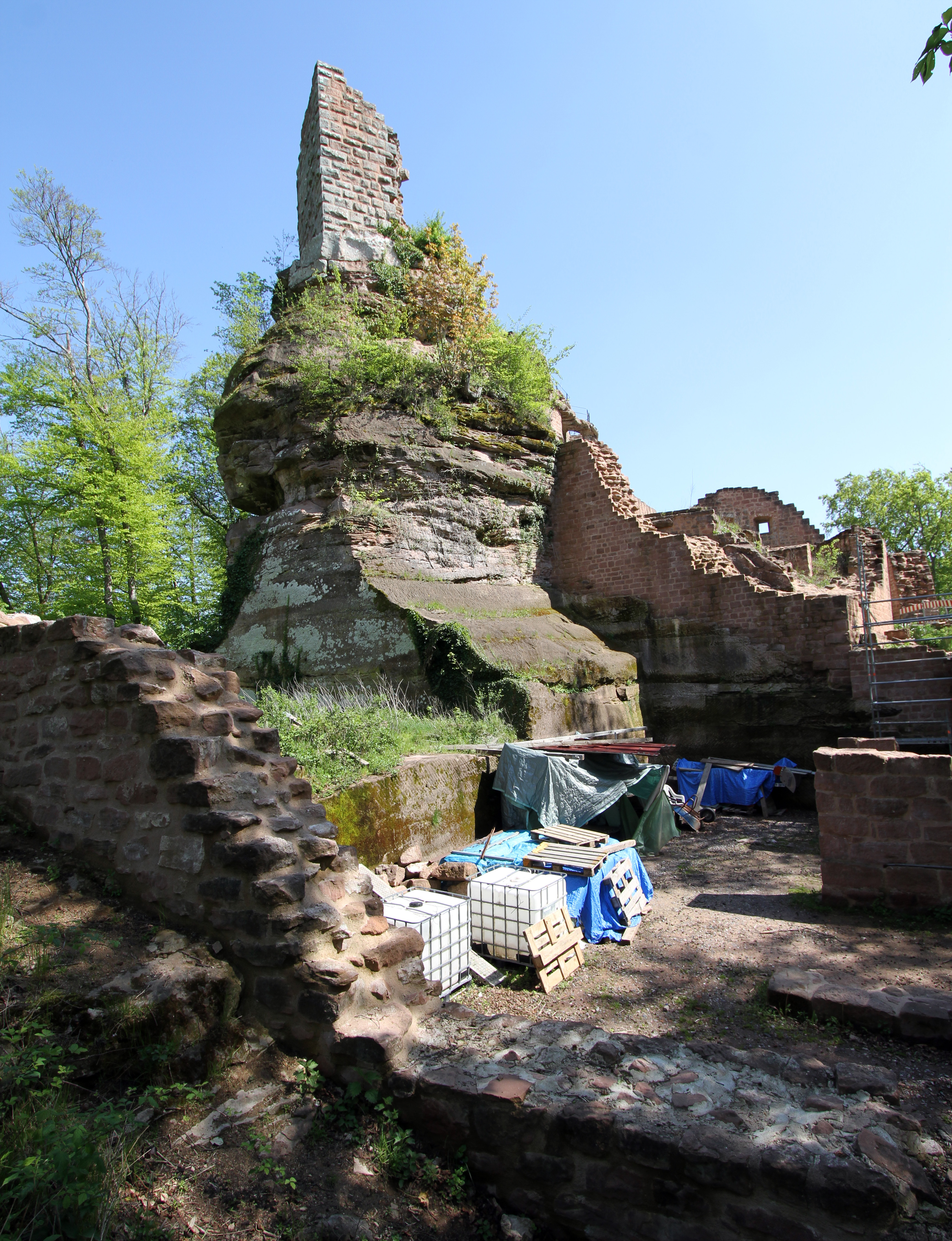 Meistersel castle / Pfalz